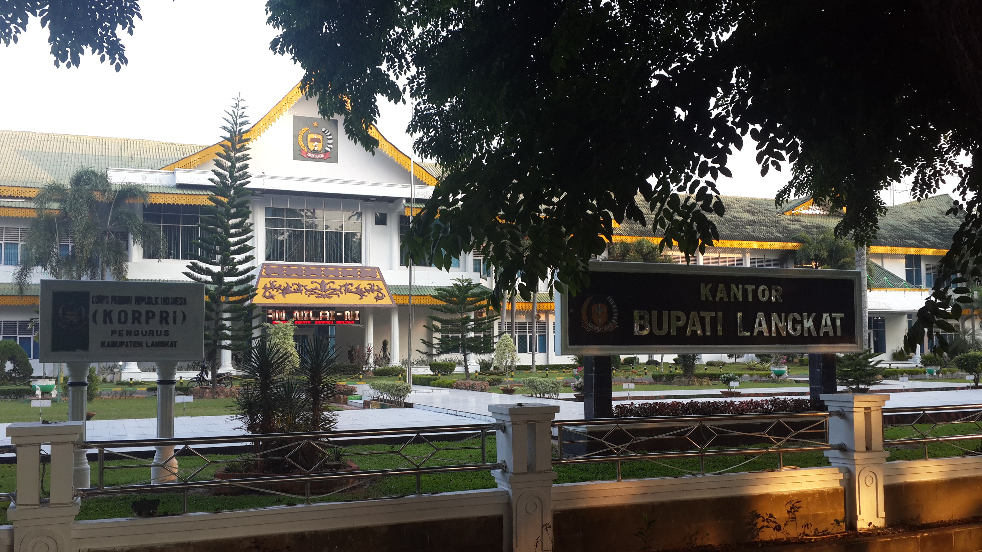 The office of the regent of Langkat, North Sumatra, Indonesia